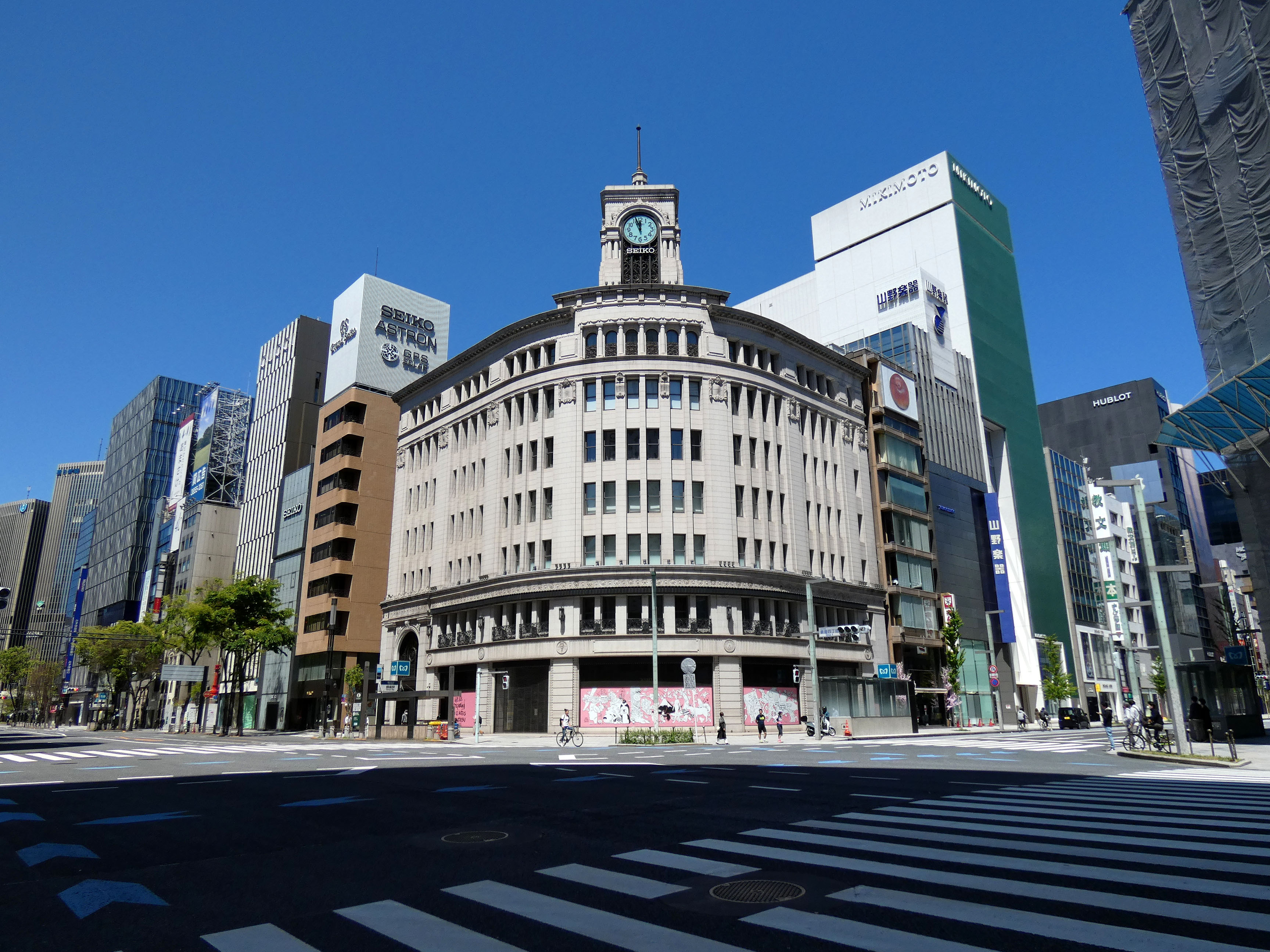 Ginza 4-Chome Crossing (Tokyo, Japan) under the state of emergency for coronavirus pandemic